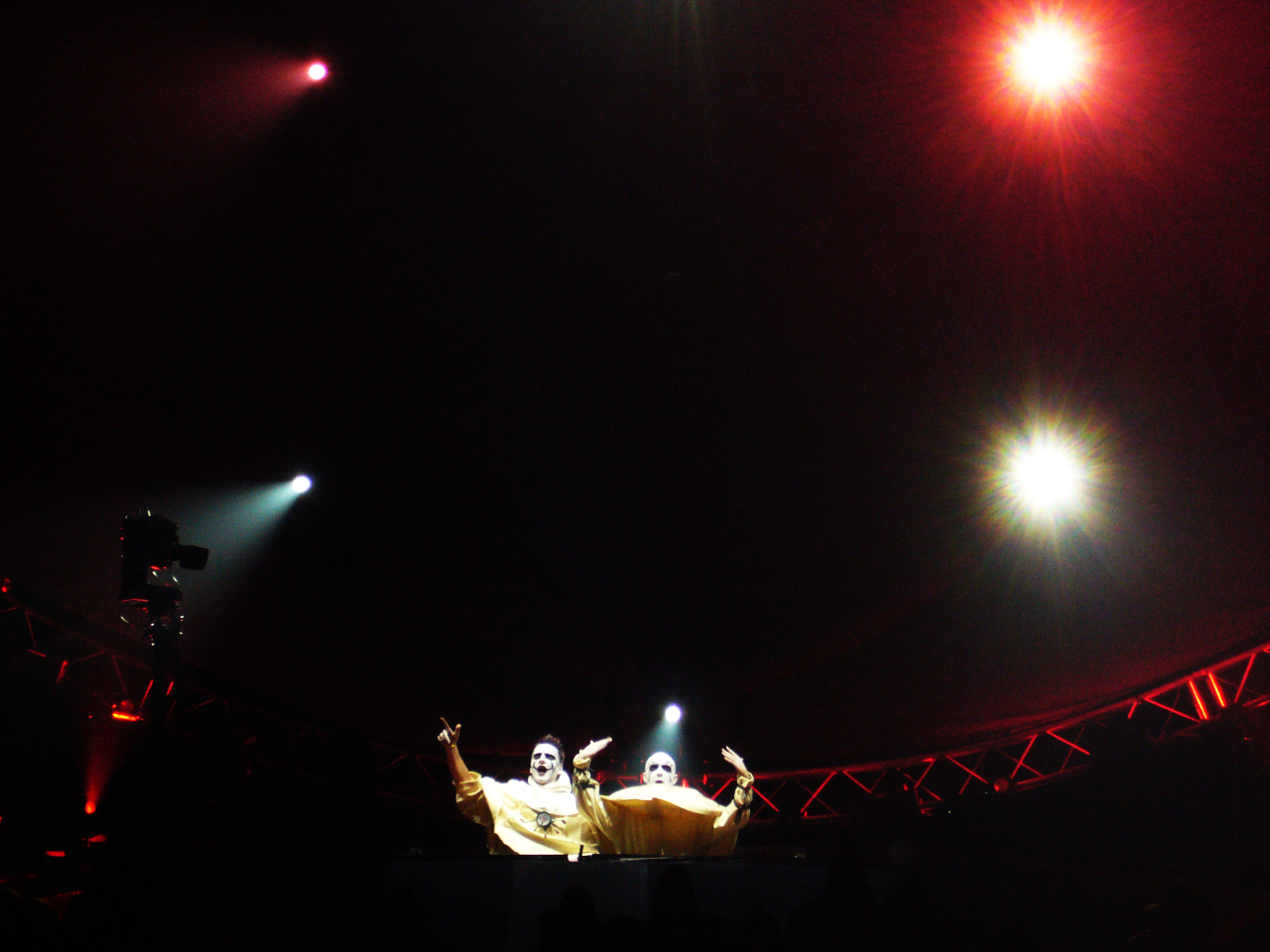 Showtek live at Qlimax 2008